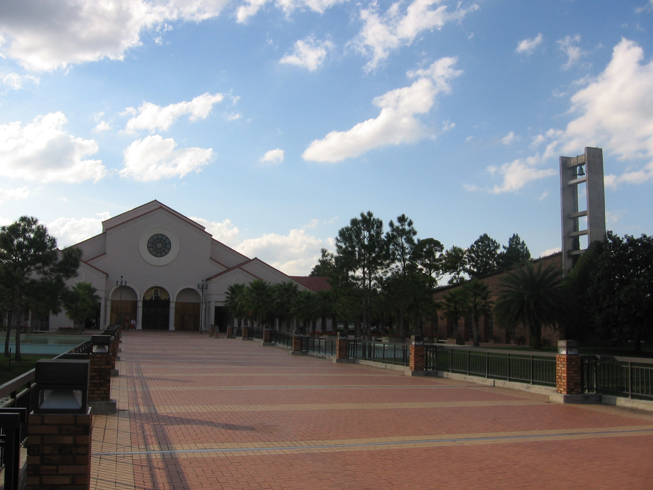 This digital photo was taken by Vince Flango. It features the front of the Mary, Queen of the Universe Shrine in Orlando, Florida.